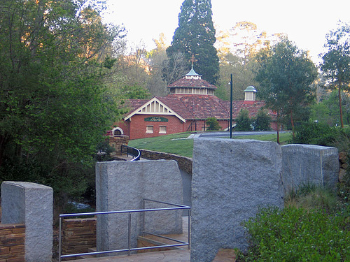 Hepburn Mineral Springs Photographer L Gervasoni